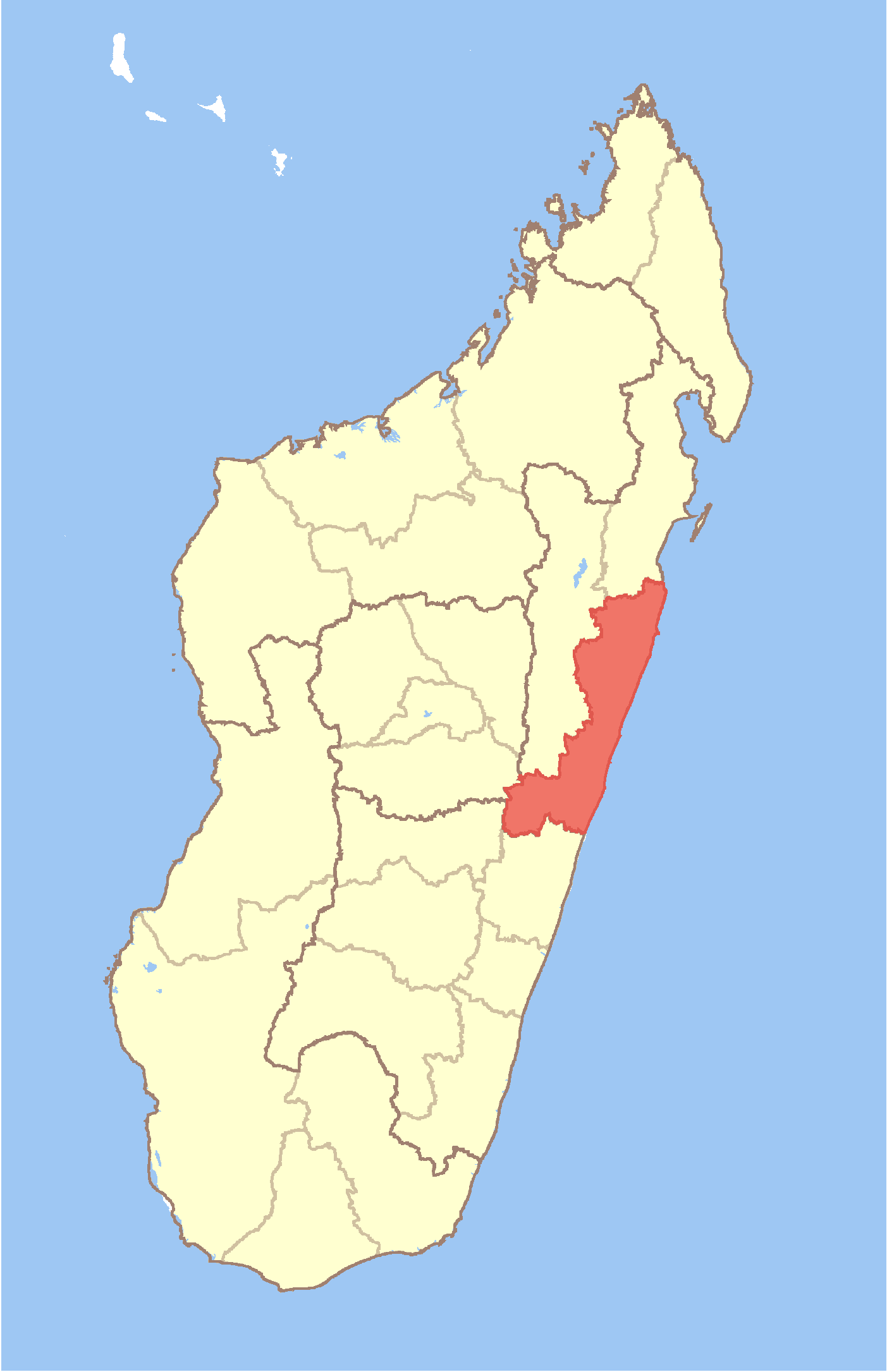 Map of Madagascar with Atsinanana Region highlighted